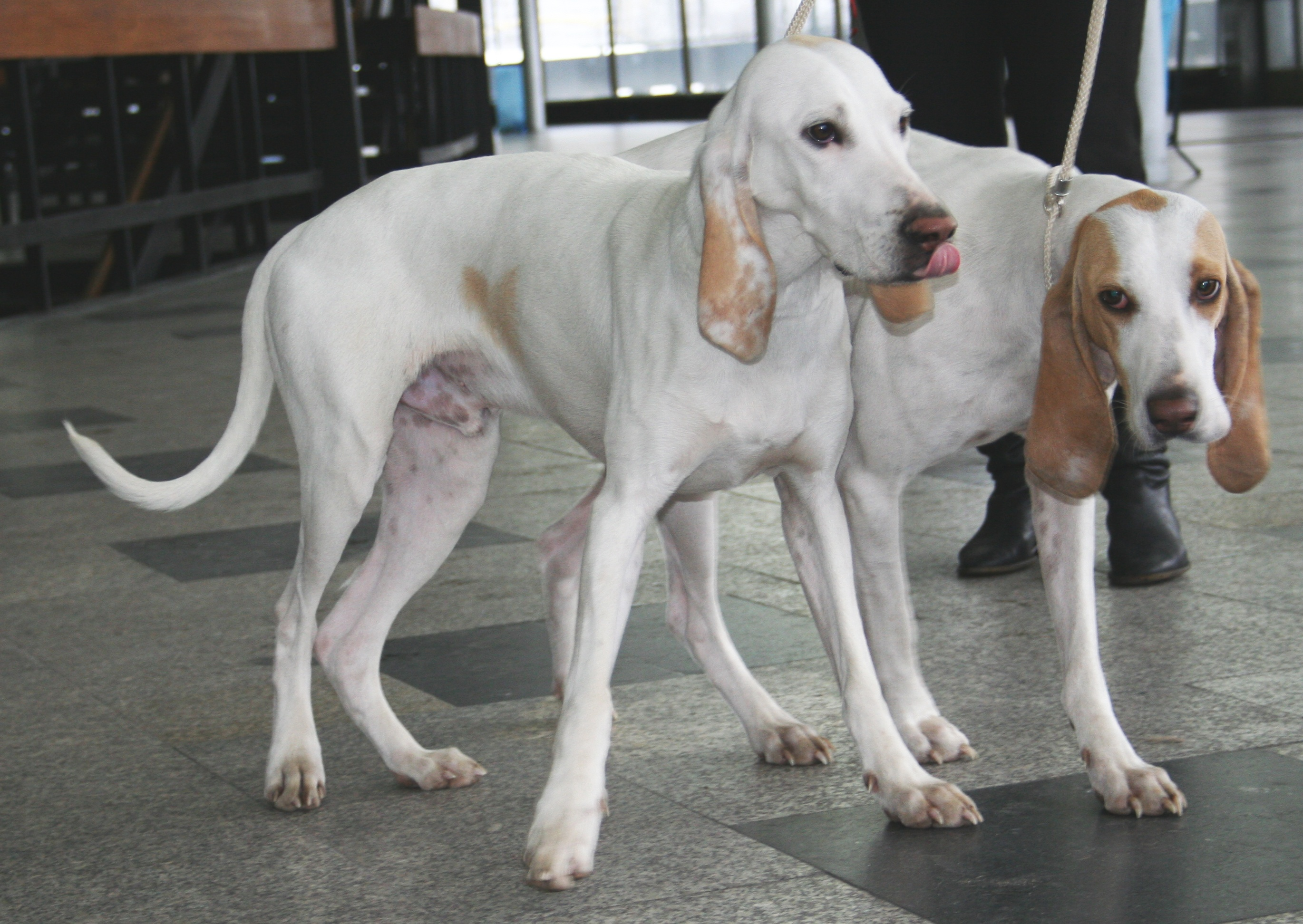 Porcelaine during the international dog show in Katowice, Poland. The dogs come from the Czech kennel "Od Pstruží říčky" FCI. The owner and the breeder is Jana Šmídová. (